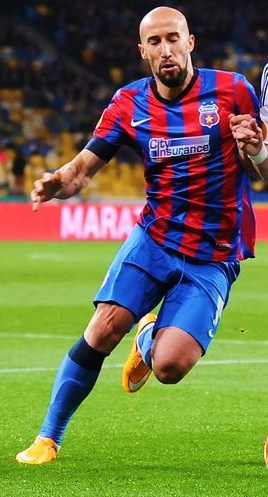 Iasmin Latovlevici